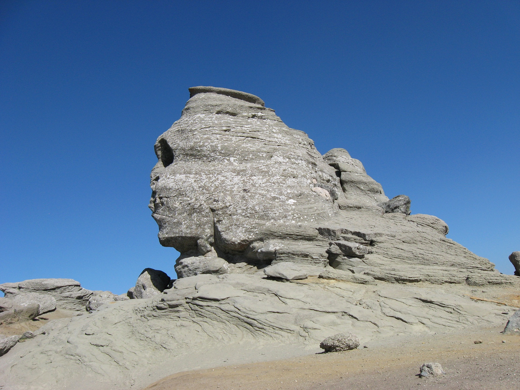 It is a Romanian national natural monument, situated on top of the Bucegi mountains near Busteni. When viewed from this angle, it resembles the Sphinx, so that's where it got the name from.